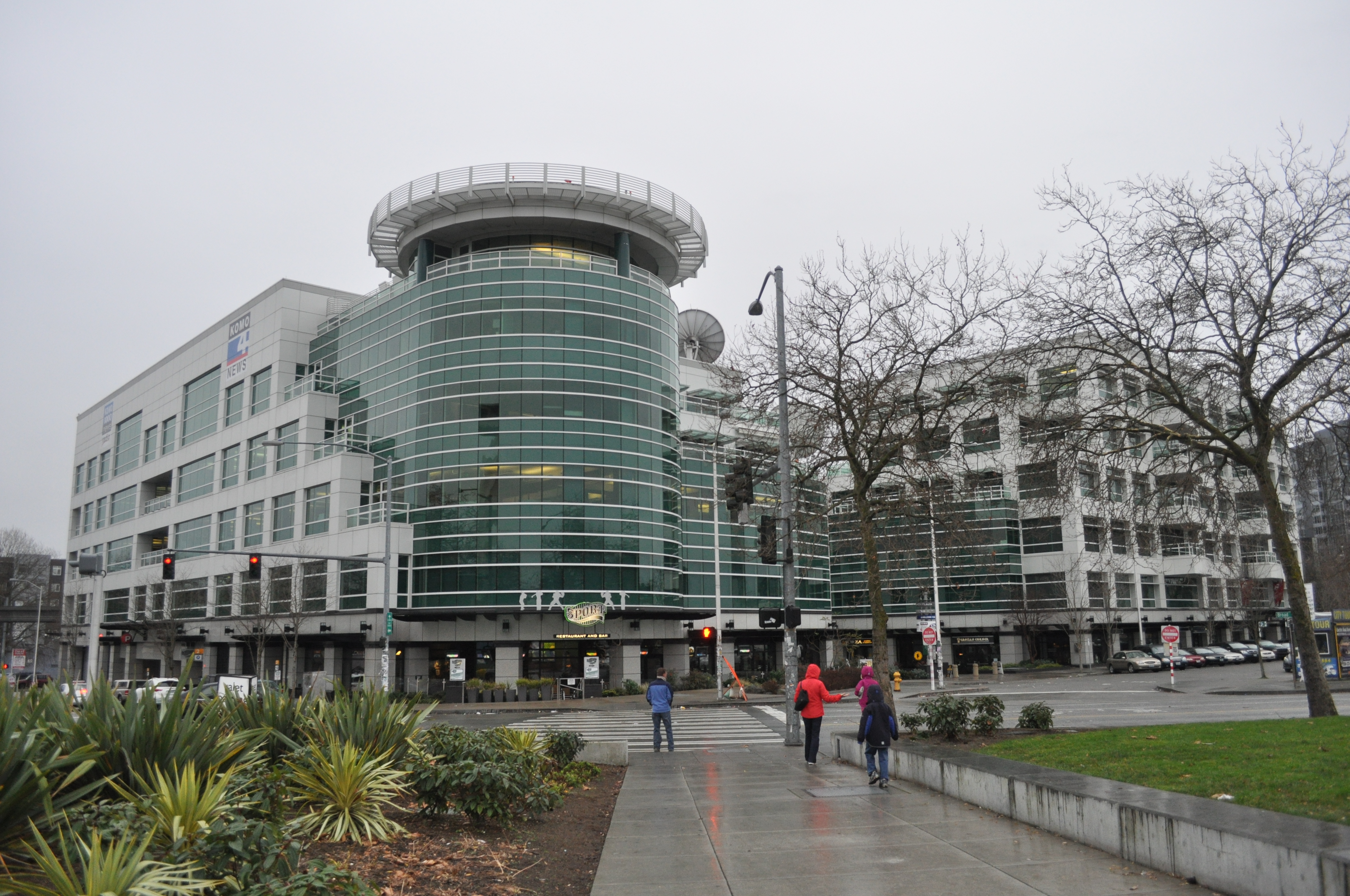 Fisher Plaza, Seattle, Washington.